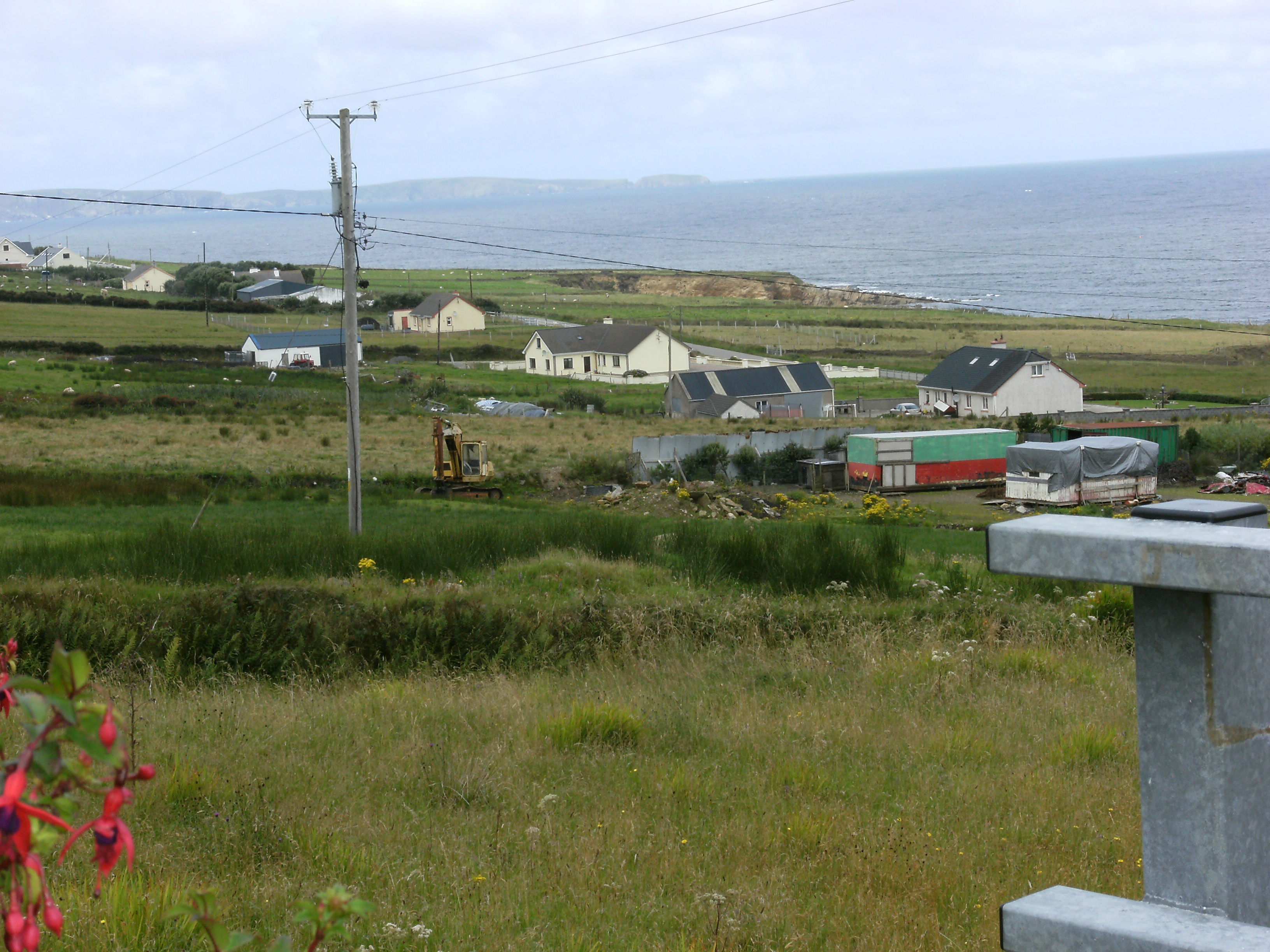 Houses at Glengad, Kilcommon, Erris, Ballina, Co. Mayo in linear form along main road